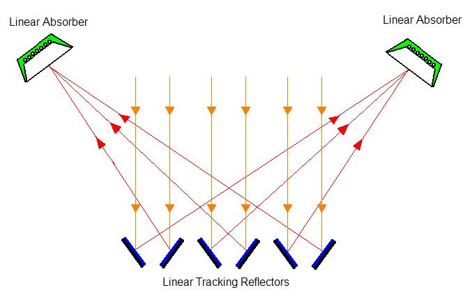 Compact Linear Fresnel Reflector solar systems use alternating inclinations of mirrors to reduce necessary space and prevent solar blocking between mirrors.